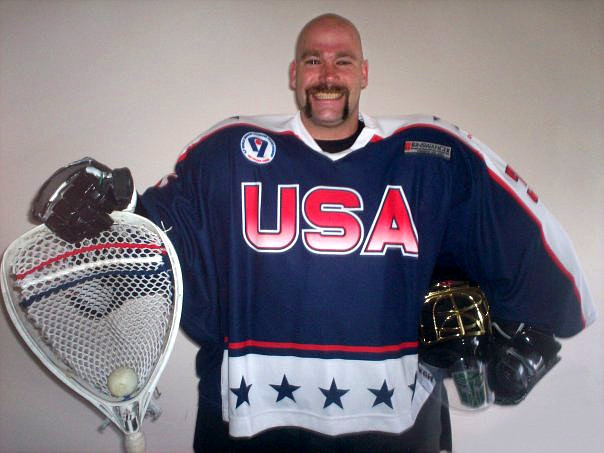 Picture of TEAM USA INDOOR LACROSSE goalie Jeremy Ogden